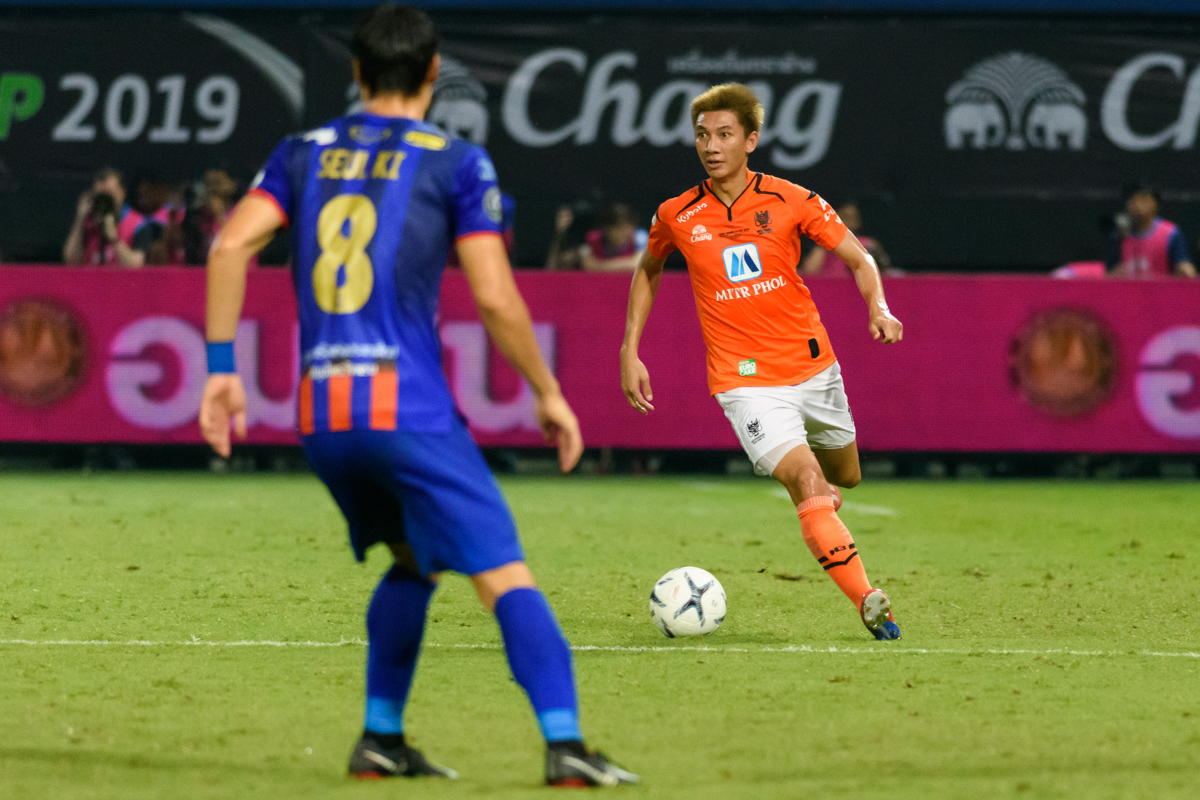 Ekkaluck Thonghkit during the Thai FA Cup Final 2019 vs Port FC